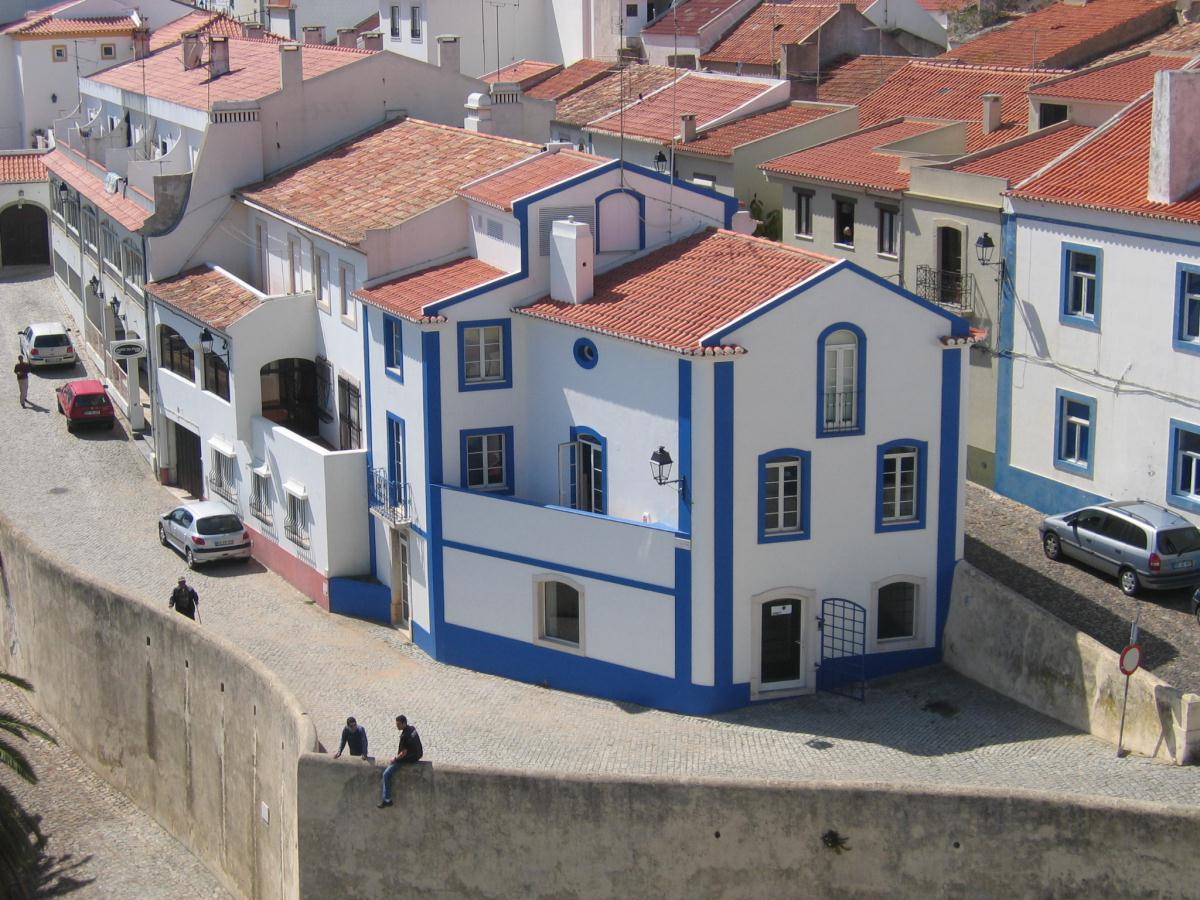 Sines historic city